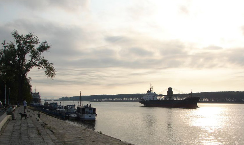 Picture of Ismail harbour (Ukraine)